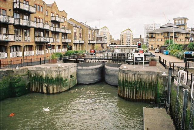 Limehouse Basin Entrance Lock. View from Narrow Street bridge up the entrance lock towards the basin. When I last visited Narrow Street in about 1973 I remember a power station, waste paper mill and scuttling scar faced women.